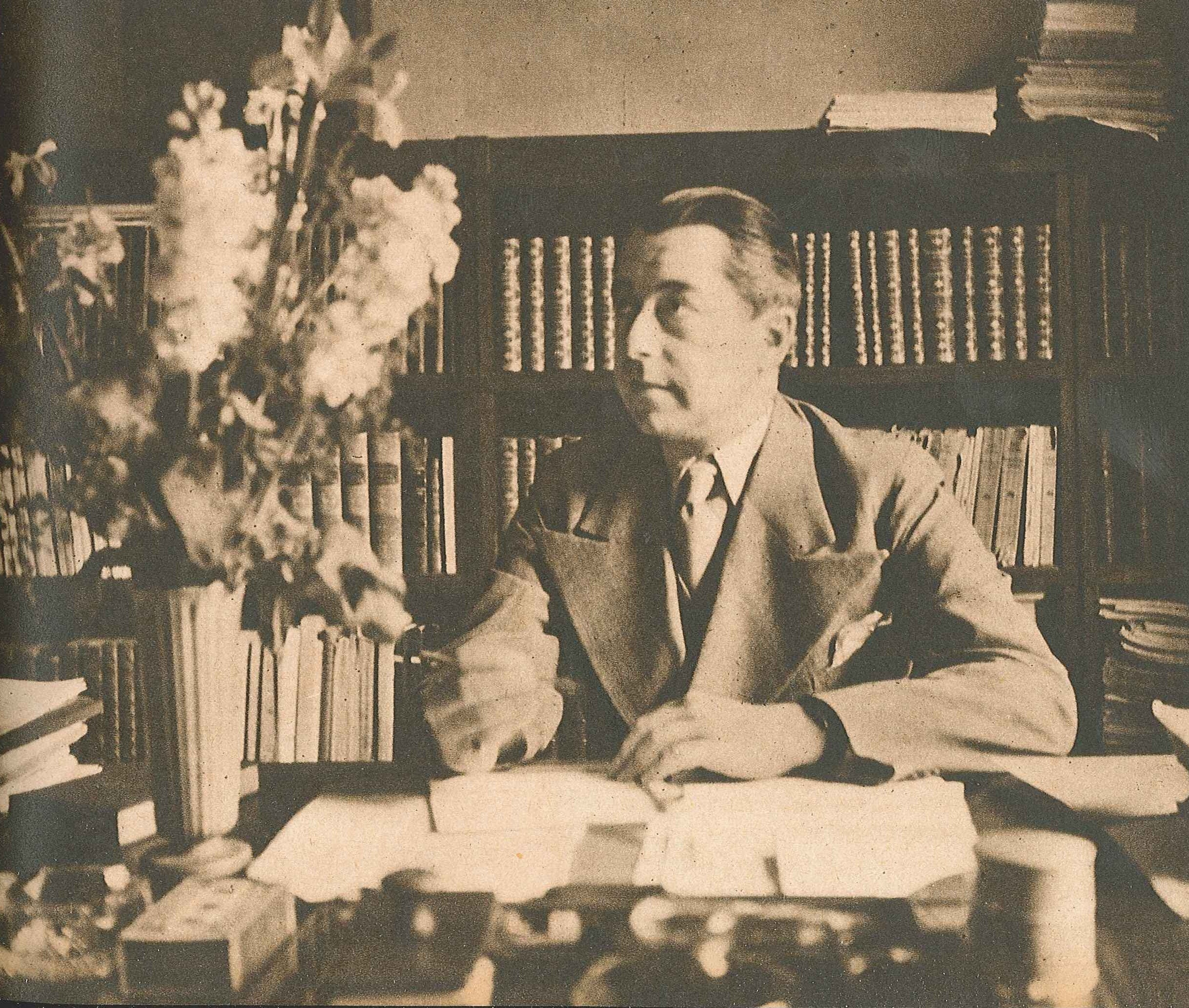 Hjalmar Gullberg (1898-1961), Swedish author and poet; member of the Swedish Academy 1940-1961.